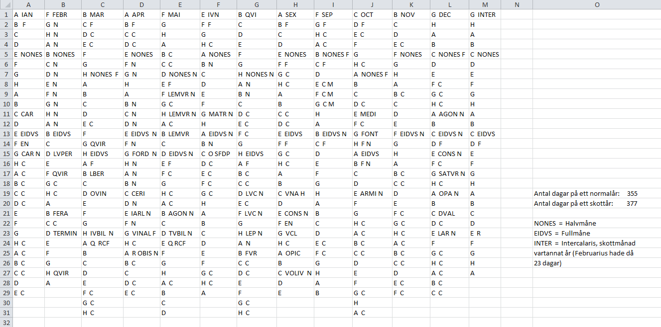 Fasti Antiates Maiores - This is a more readable copy of a - Miniature black and white image of a 1 m high by 2.5 m wide fragmentary fresco of a pre-Julian Roman calendar (black and red letters on a white background) found in the ruins of Nero's villa at Antium (Anzio). The lengths of January to December are 29, 28, 31, 29, 31, 29, 31, 29, 29, 31, 29, 29 days each in years without the leap month Intercalaris. Now in the Palazzo Massimo.